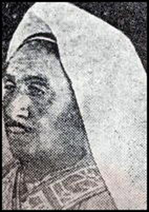 Muhammad bin Ali al-Idrisi (محمد بن علي الإدريسي) - Imam in Asir 1909-1923